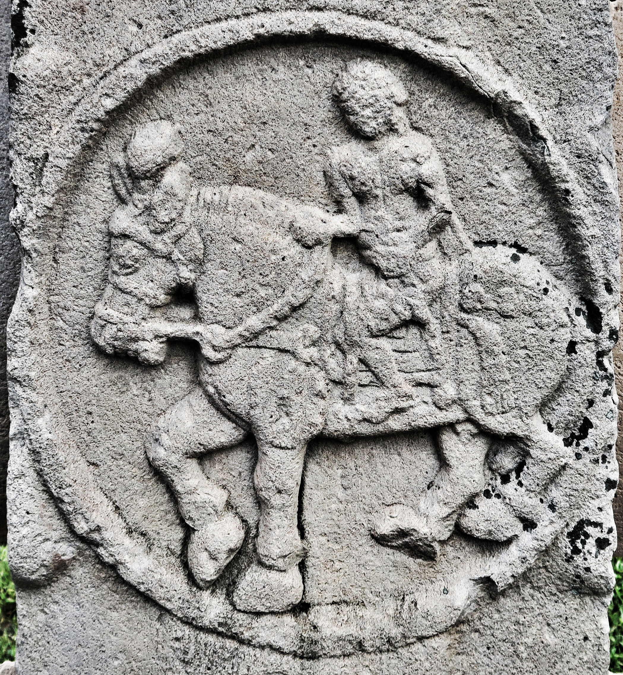 Sanchi Stupa 2 man on horse